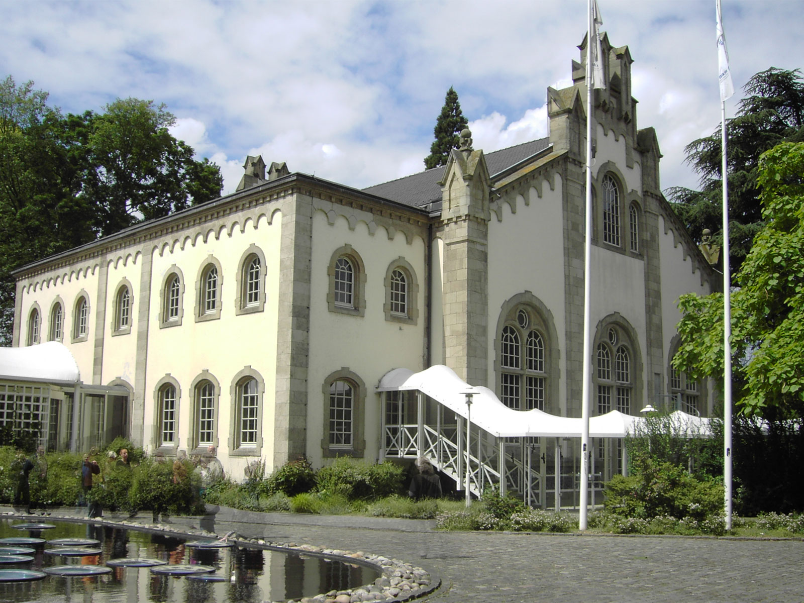 Old water pump building in Bonn. Temporary seat of the Bundestag 1986-1992